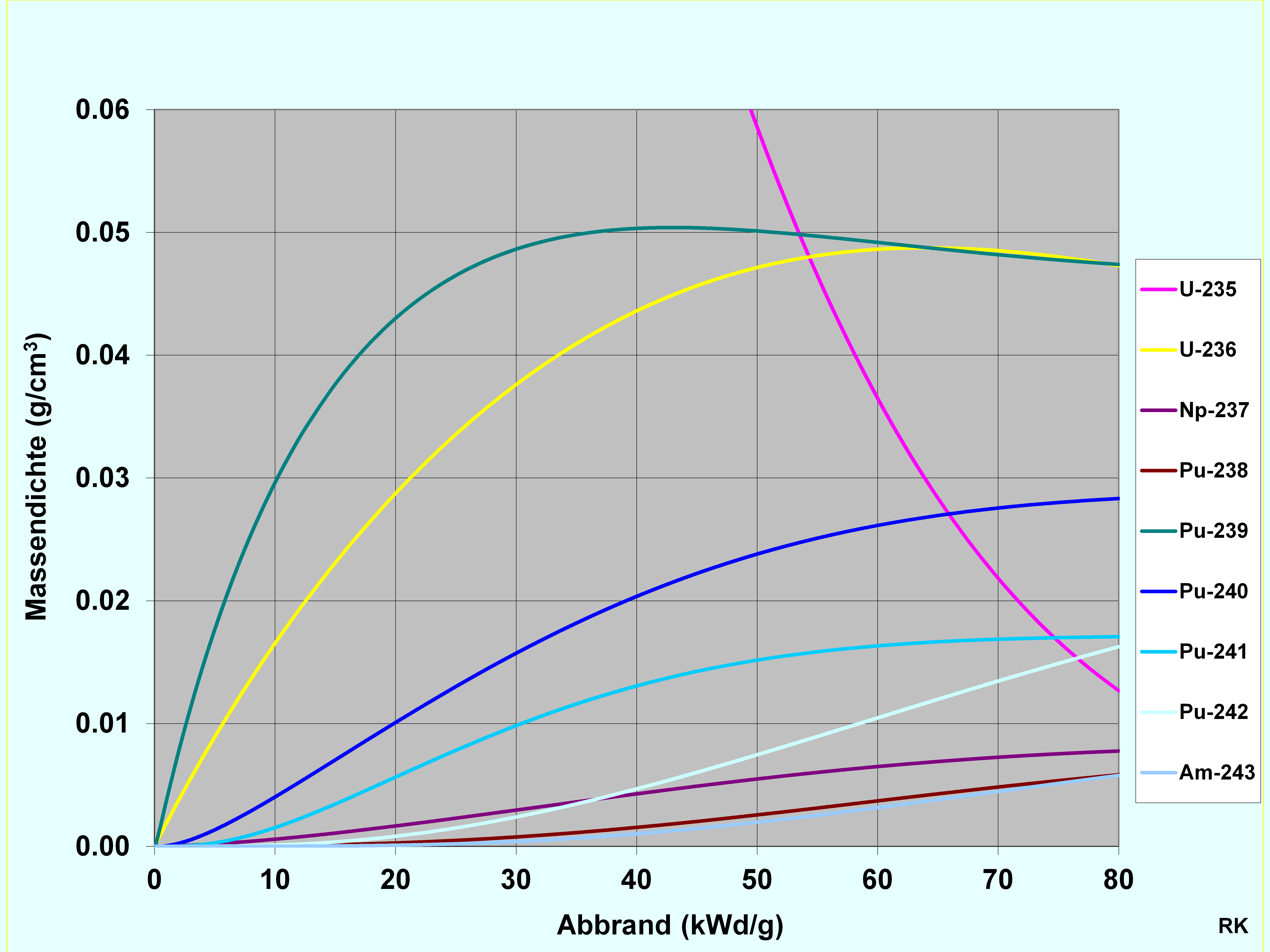 Mass densities of heavy nuclei with respect to burn-up for a pressurised water reactor